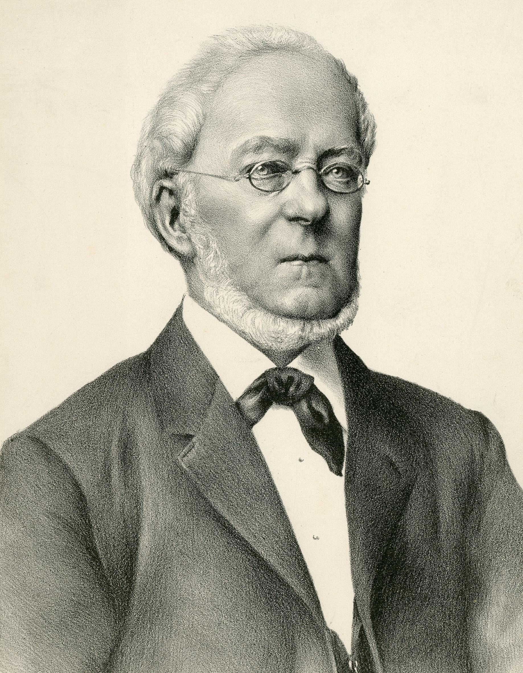 Hermann Dietrich Upmann in 1850, founder of the H.Upmann Brand and H.Upmann & Co Bank ,1844 in Cuba.